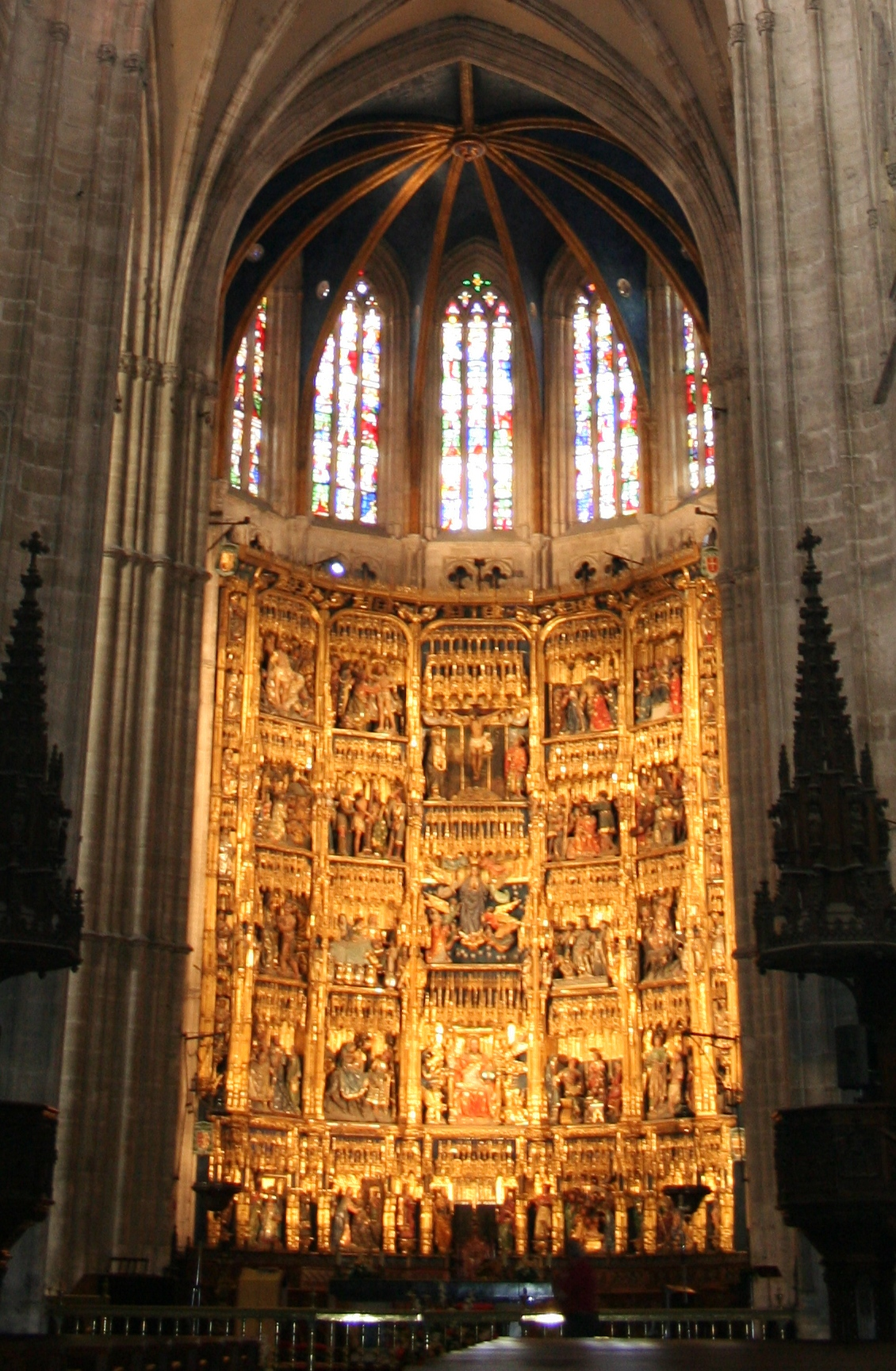 Altarpiece of Cathedral of Oviedo